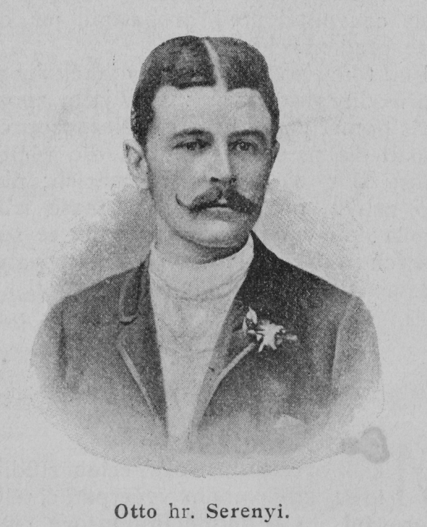 Portrait of Otto Serényi (1855-1927), a Moravian politician. Picture published on occasion of his election into Austrian Reichsrat.